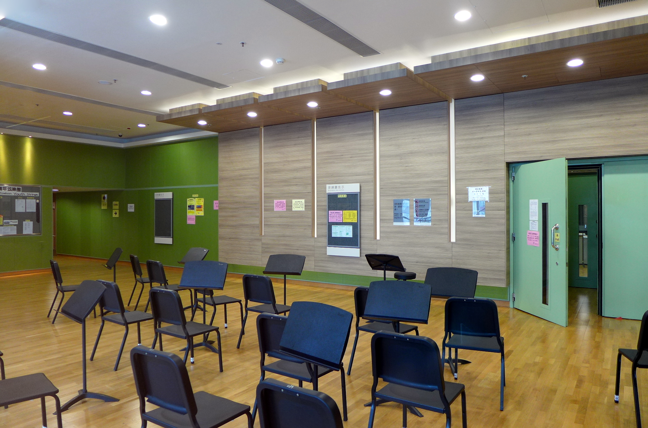 Lam Tin Complex Kwun Tong Music Centre L4 Training Room